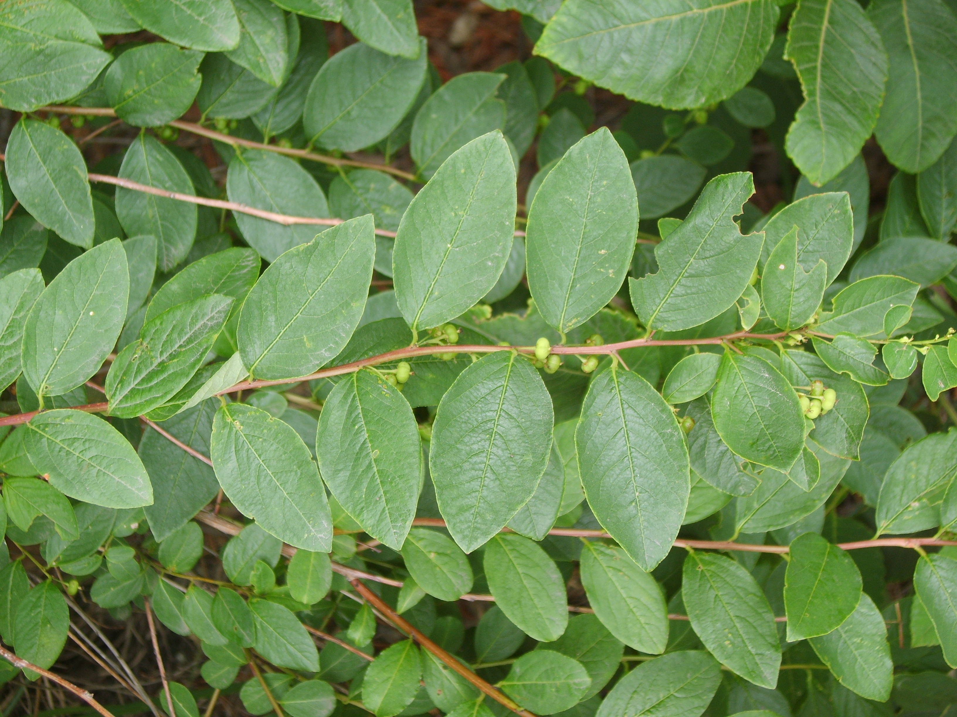 Securinega suffruticosa in Bupyung, Korea